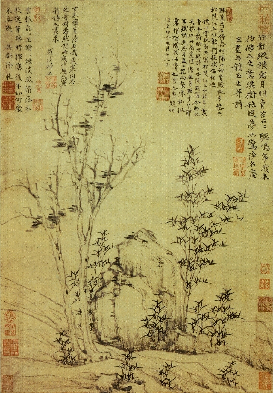 Ni Zan, The autumn wind and precious trees, located in the Shanghai Museum.